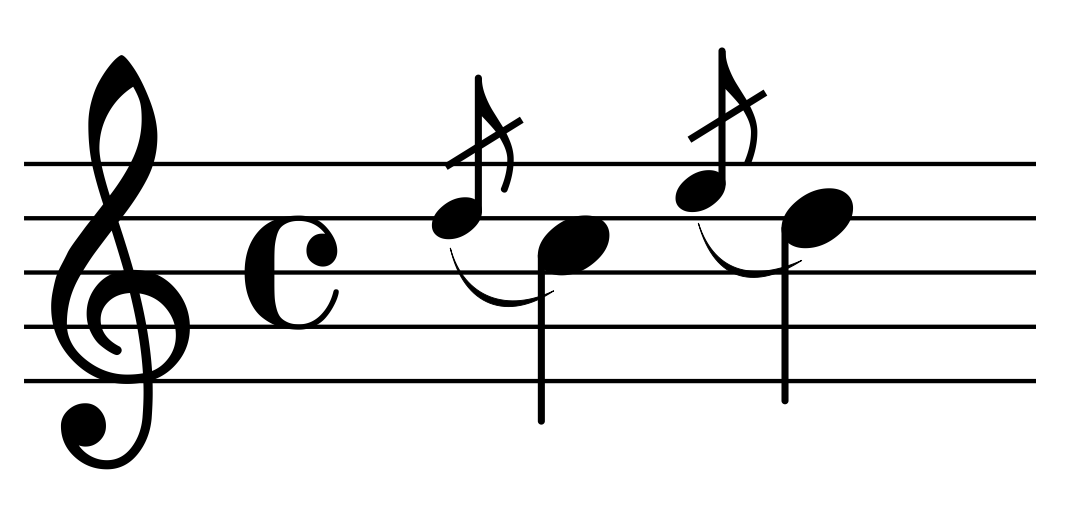 Created in Lilypond using source code: \version "2.8.6" \layout { ragged-right = ##t } \relative c { \clef treble \acciaccatura d8 c4 \acciaccatura e8 d4 } Edited in GIMP Created by me, Sbrools (talk . contribs)